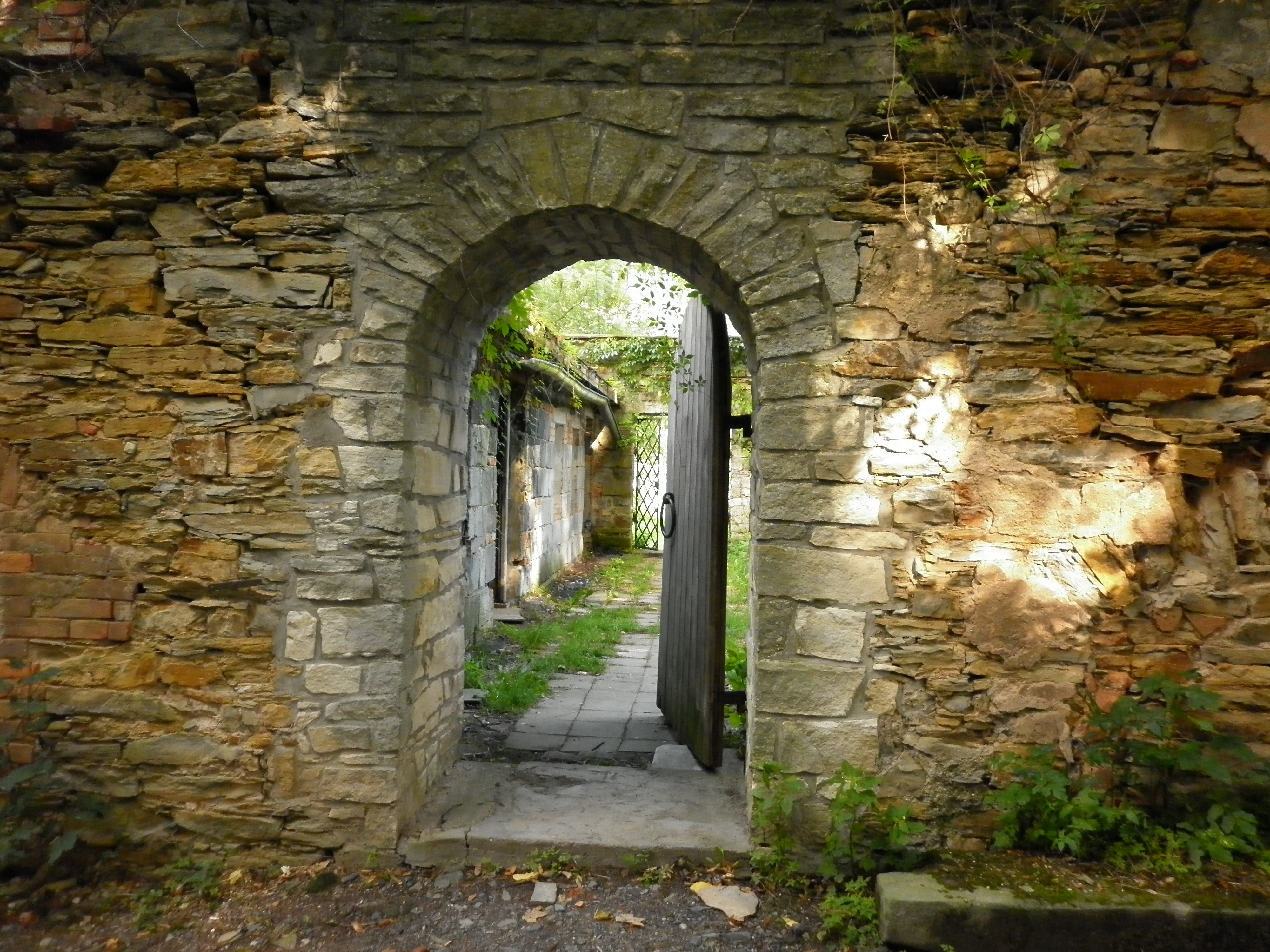 Ruins of Ryzmburk, Babiččino údolí, Ratibořice, Česká Skalice, Czech Republic